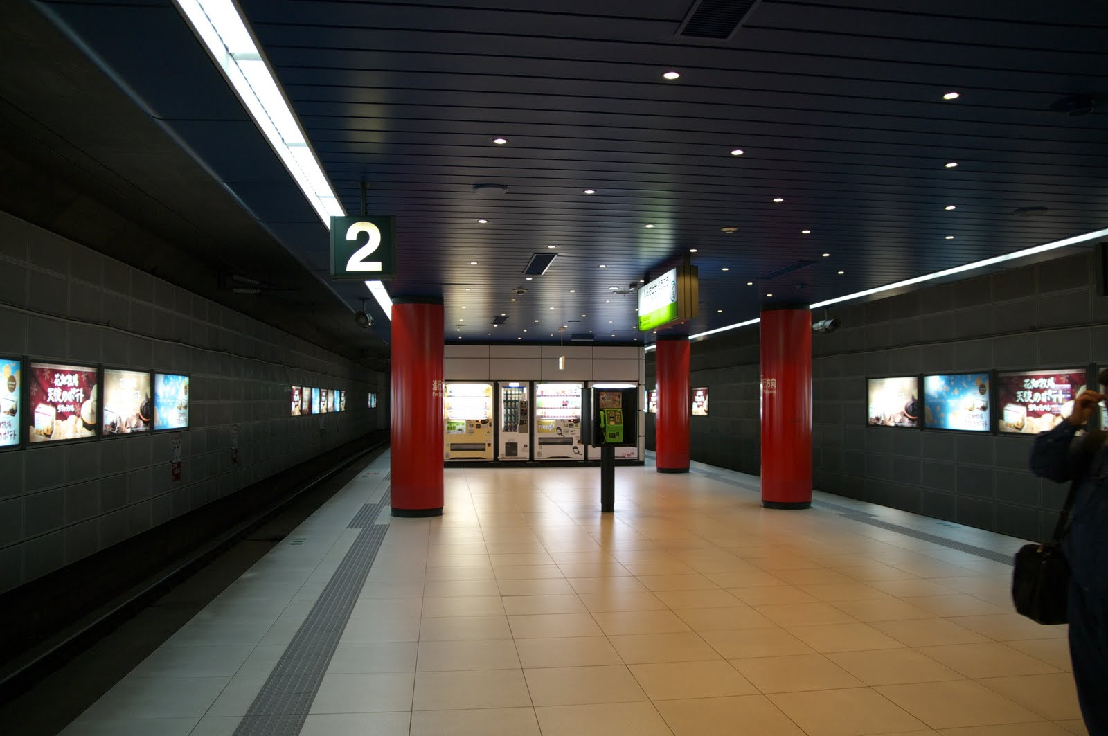 New Chitose airport Station in Chitose, Hokkaido pref., Japan.